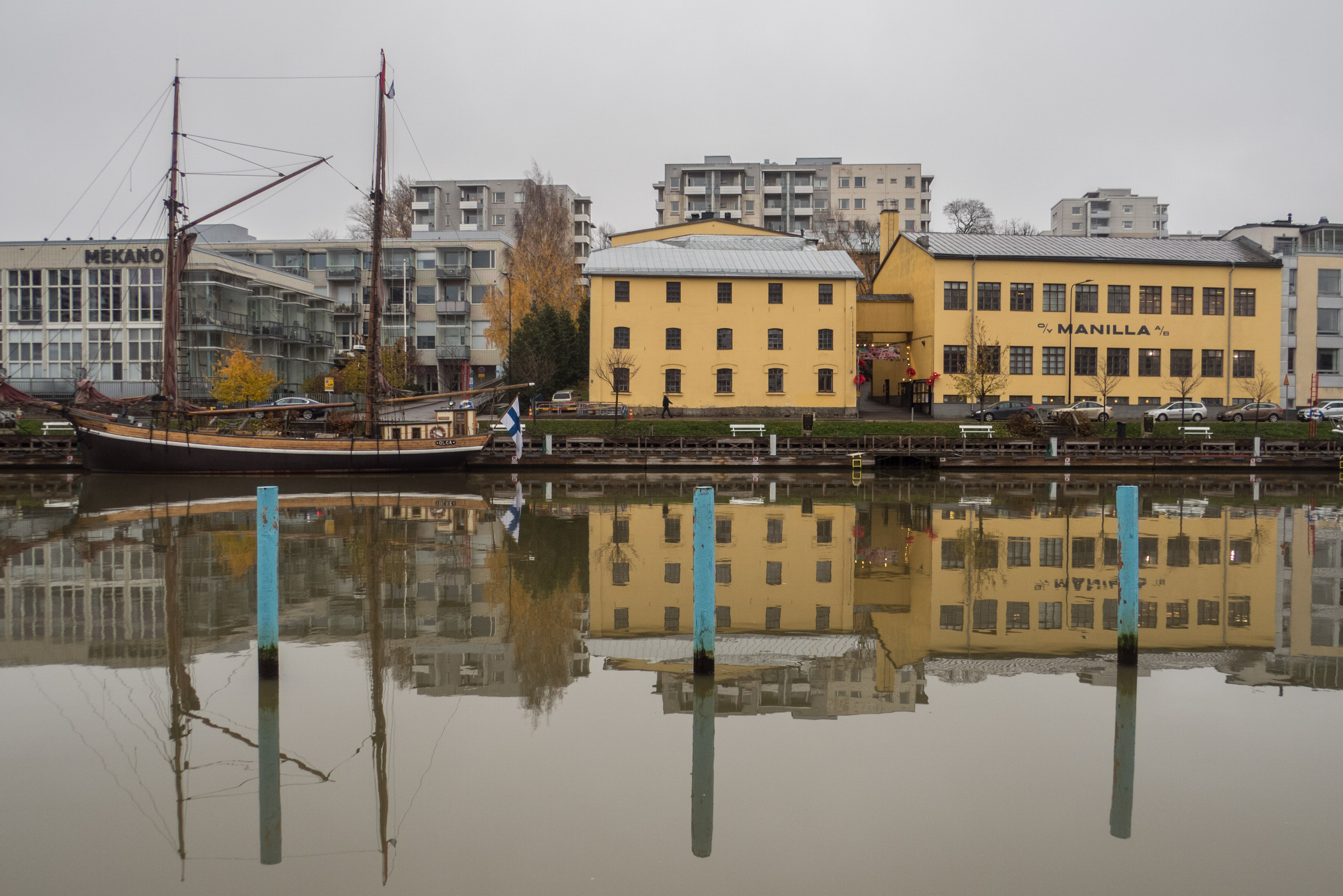 Old galleass Olga beside former rope factory Manilla.